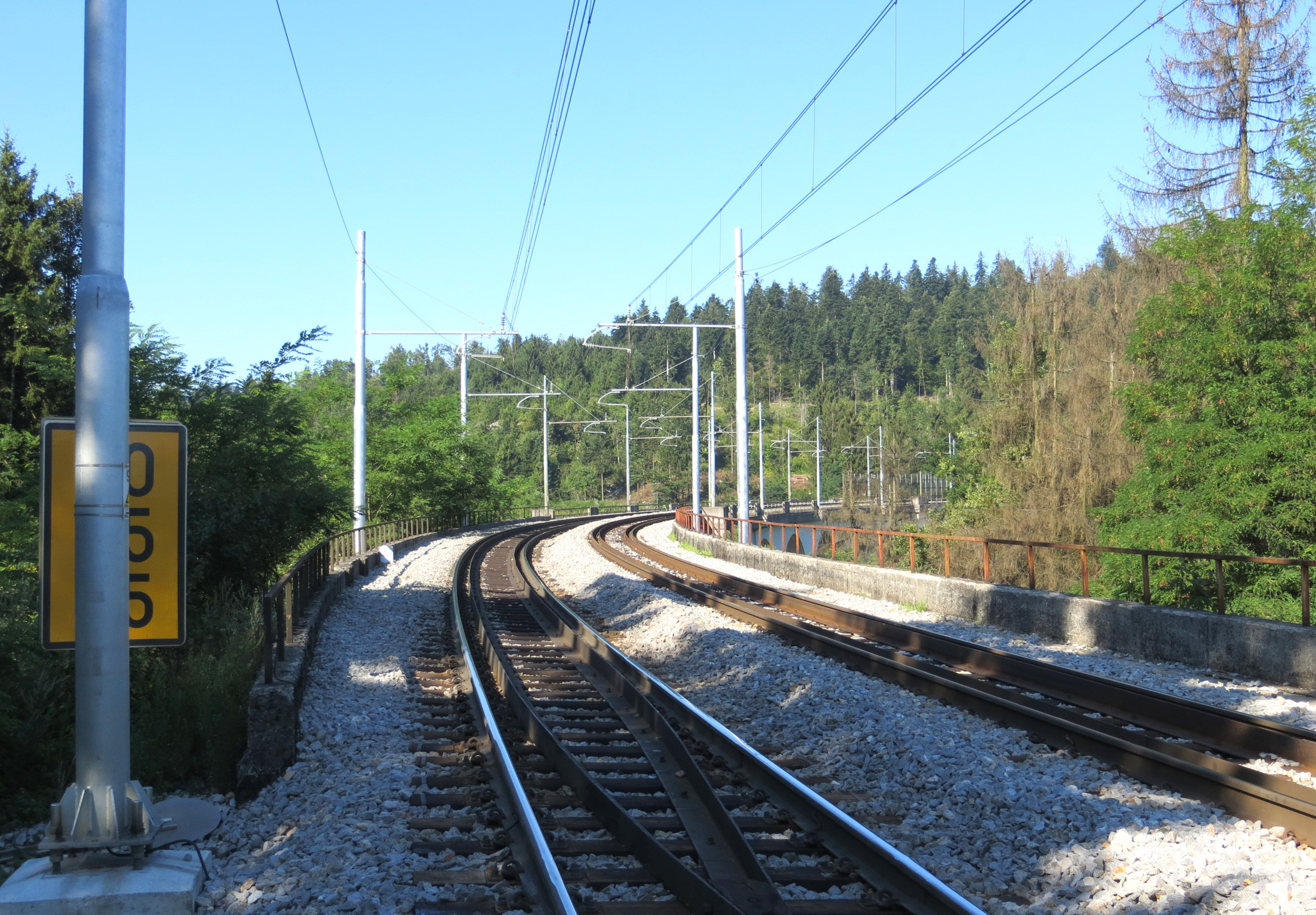 Approaching the Stampetta Bridge from the east in Vrhnika, Slovenia